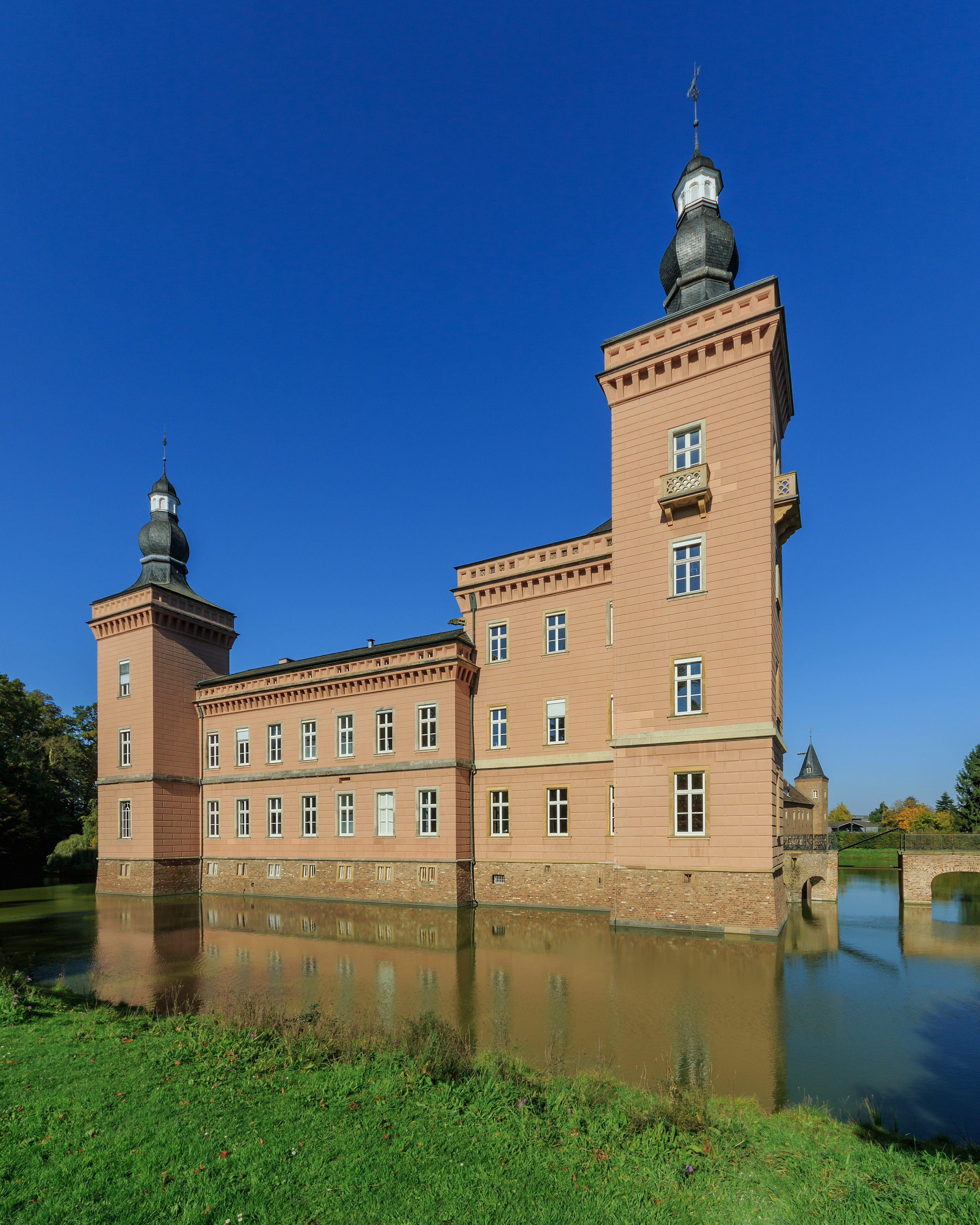 Gracht castle in Erftstadt, Rhein-Erft-Kreis (Germany)